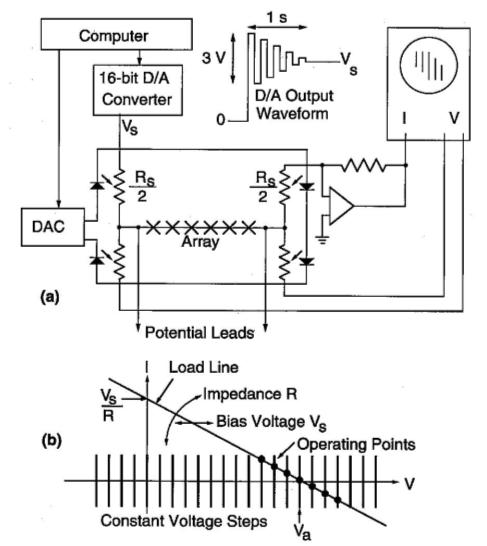 A schematic diagram of the bias system for a Josephson voltage standard